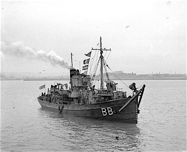 Hmt Bervie Braes Underway at Devonport.